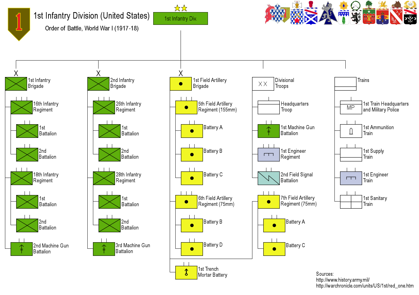 US Army 1st Infantry Division Structure, World War I